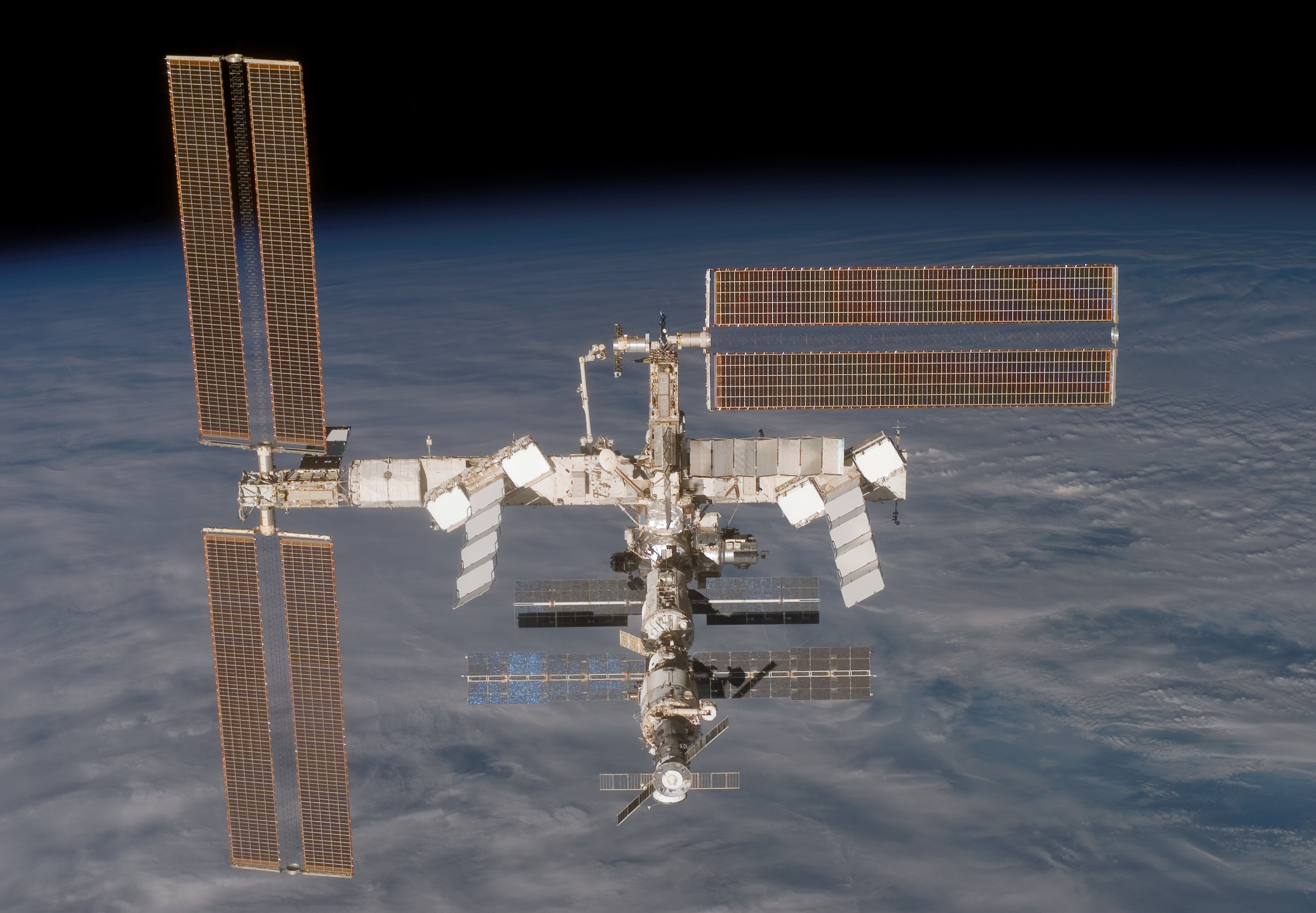 S116-E-07153 (19 Dec. 2006) --- Backdropped by the blackness of space and Earth's horizon, the International Space Station moves away from Space Shuttle Discovery. Earlier the STS-116 and Expedition 14 crews concluded eight days of cooperative work onboard the shuttle and station. Undocking of the two spacecraft occurred at 4:10 p.m. (CST) on Dec. 19, 2006. Astronaut William A. (Bill) Oefelein, STS-116 pilot, was at the controls for the fly-around, which gave Discovery's crew a look at its handywork, a new P5 spacer truss segment and a fully retracted P6 solar array wing. During their stay on orbital outpost, the combined crew installed the newest piece of the station's backbone and completely rewired the power grid over the course of four spacewalks.